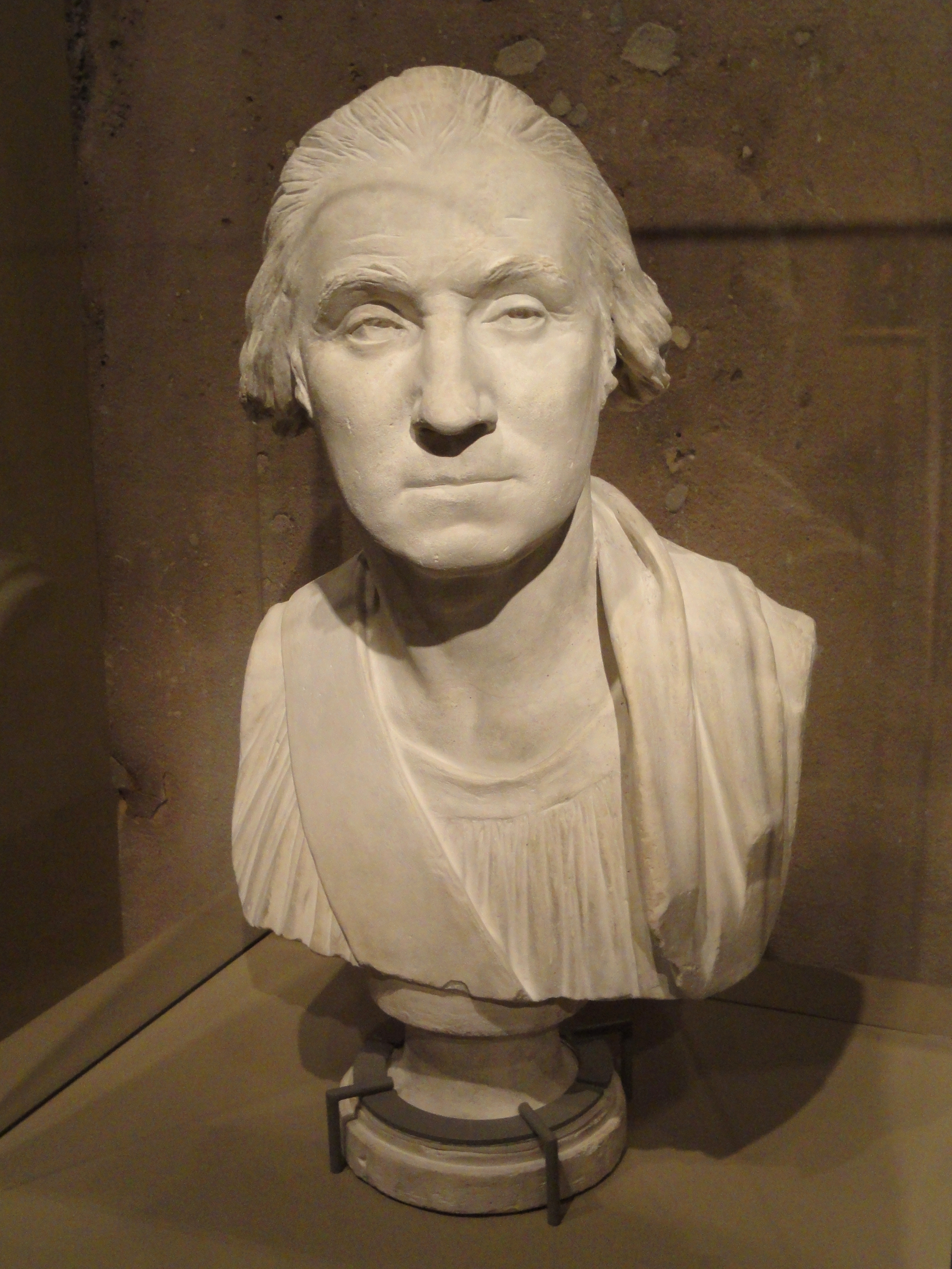 George Washington by Jean-Antoine Houdon, plaster, c. 1786. Exhibited in the National Portrait Gallery, Washington, DC, USA. This artwork is old enough so that it is in the public domain.